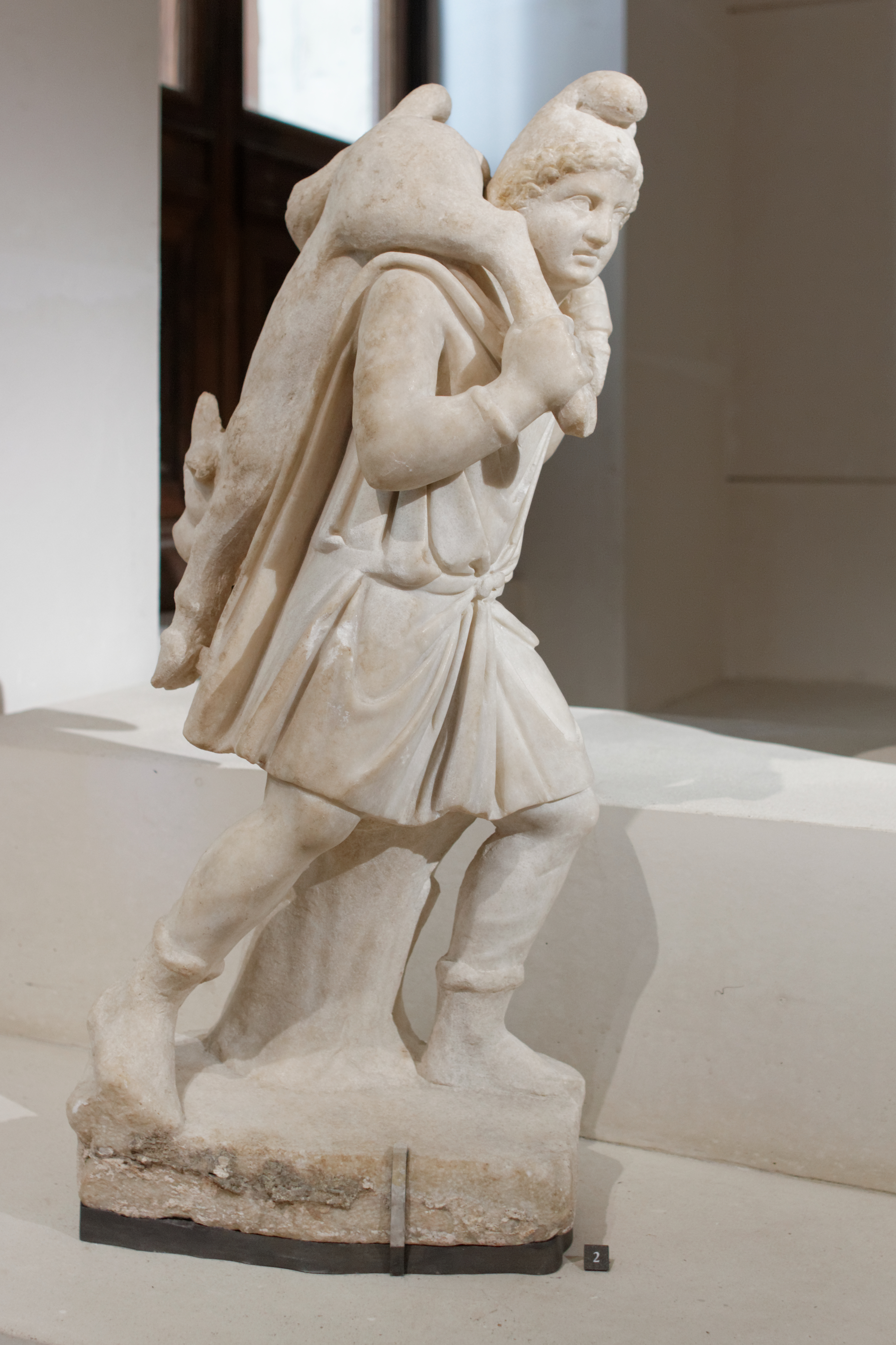 Mithras, in short chiton and shod, carrying the bull on his shoulders